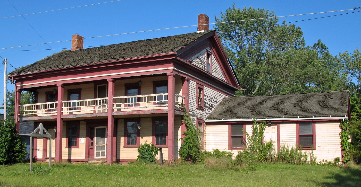 Registered Historic Places in Stark County, Ohio. New Baltimore Inn, 14722 Ravenna Ave NE, New Baltimore, Ohio, USA. Photographed 2008-08-30 from the west side of Ravenna Ave. NE near the intersection with Pontius St. NE.